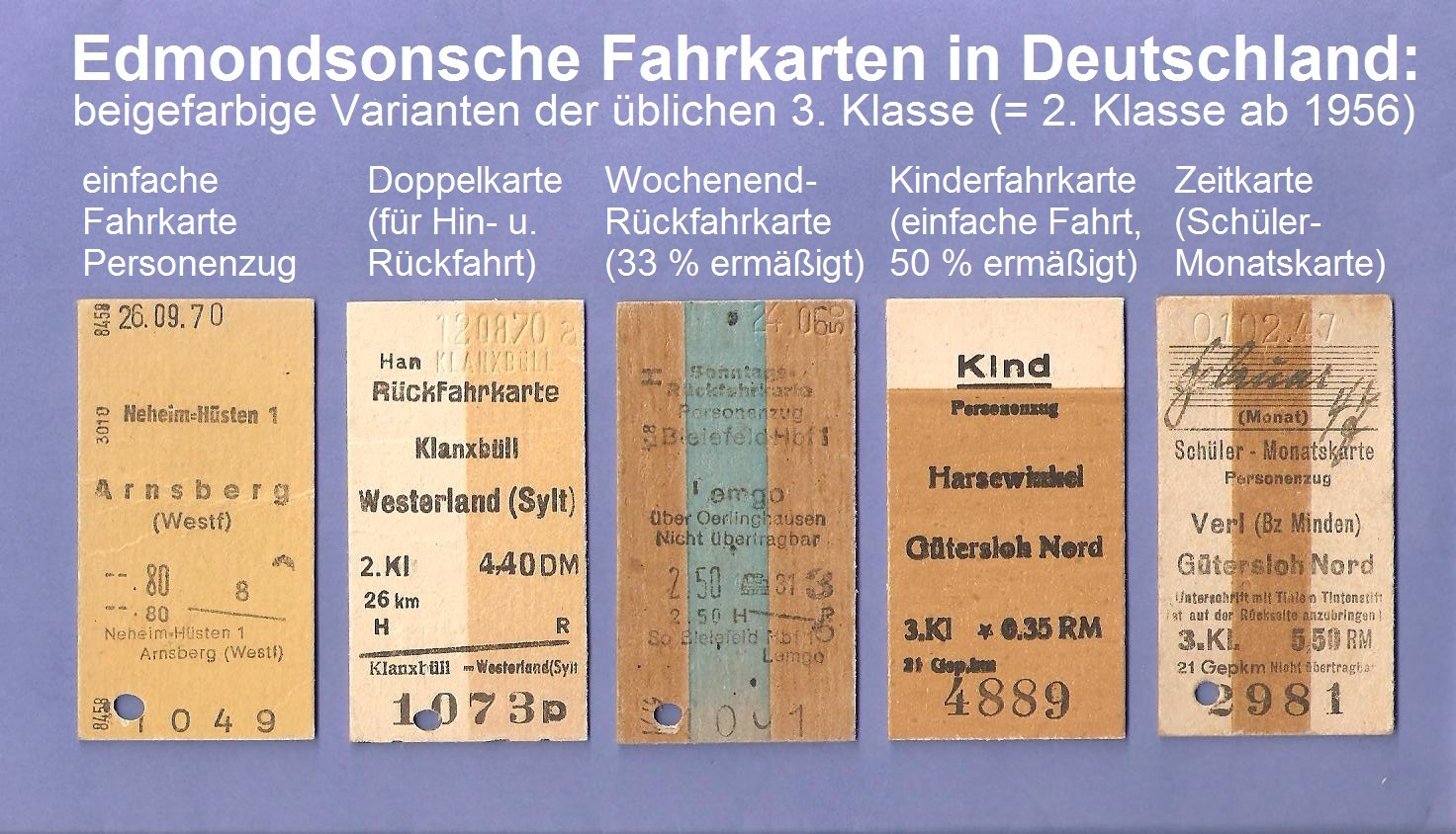 Edmondson railway tickes 2nd / 3rd class in Germany, samples between 1947 and 1970